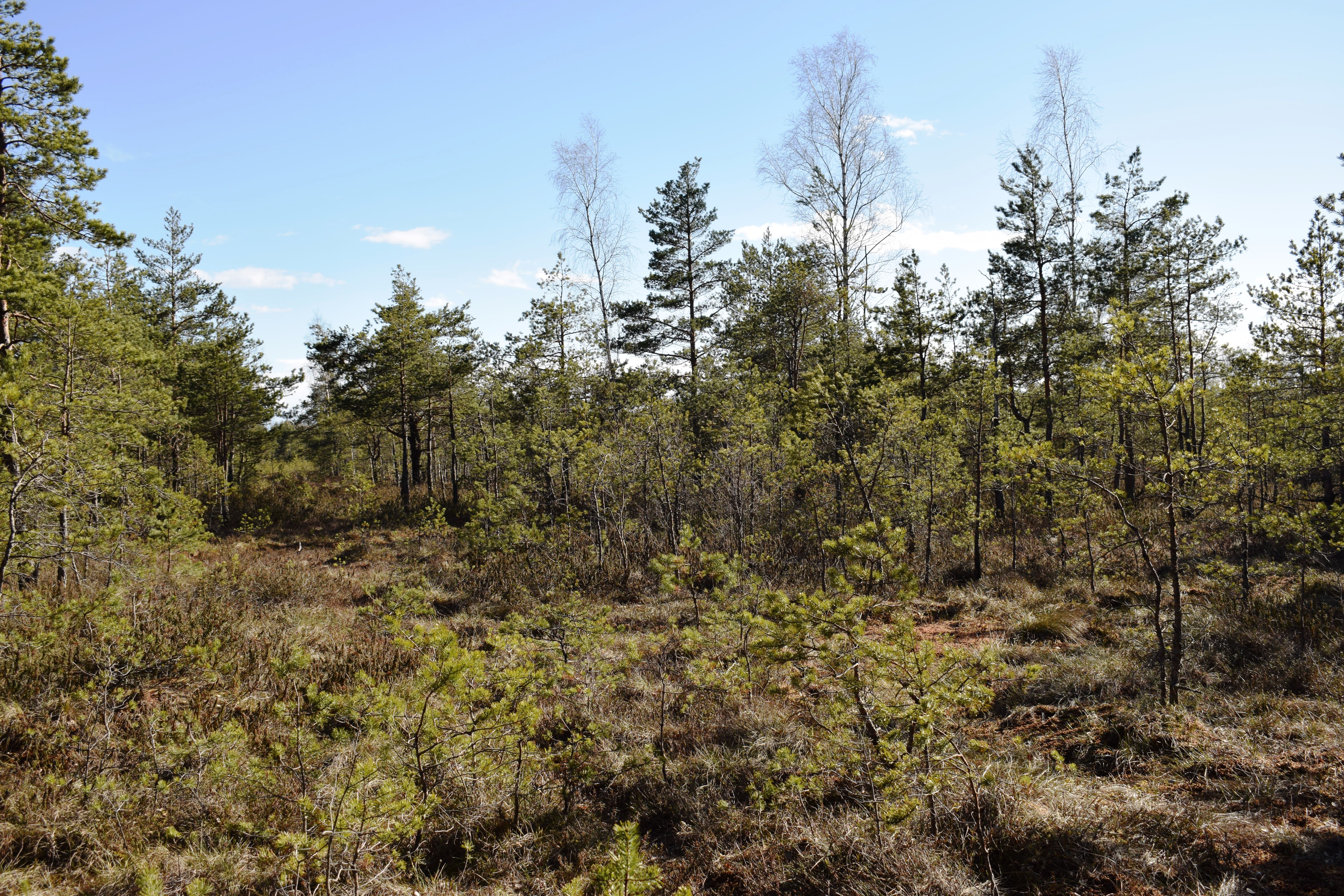 Mūkupurvs